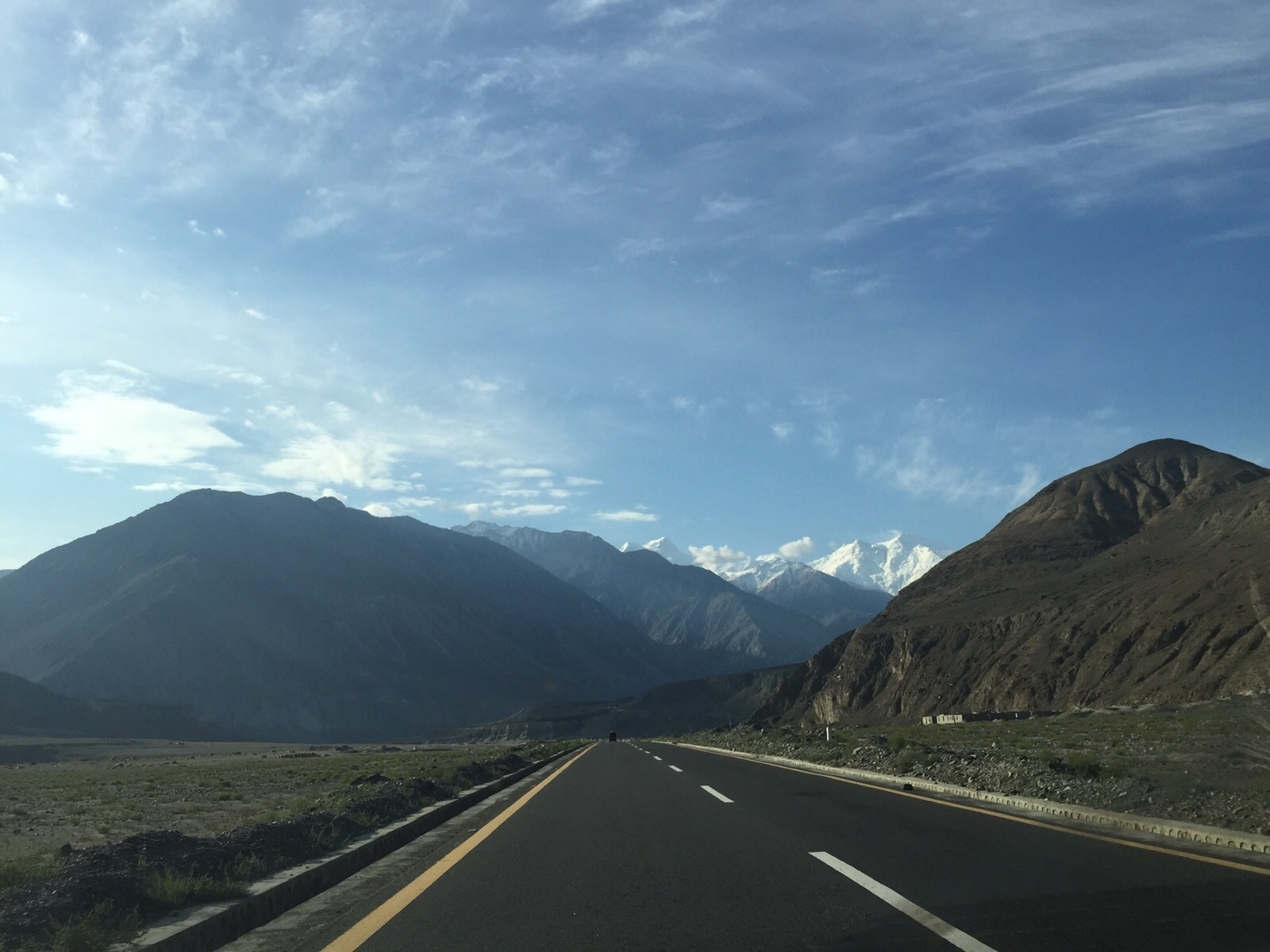 KKH The World's 9th Wonder